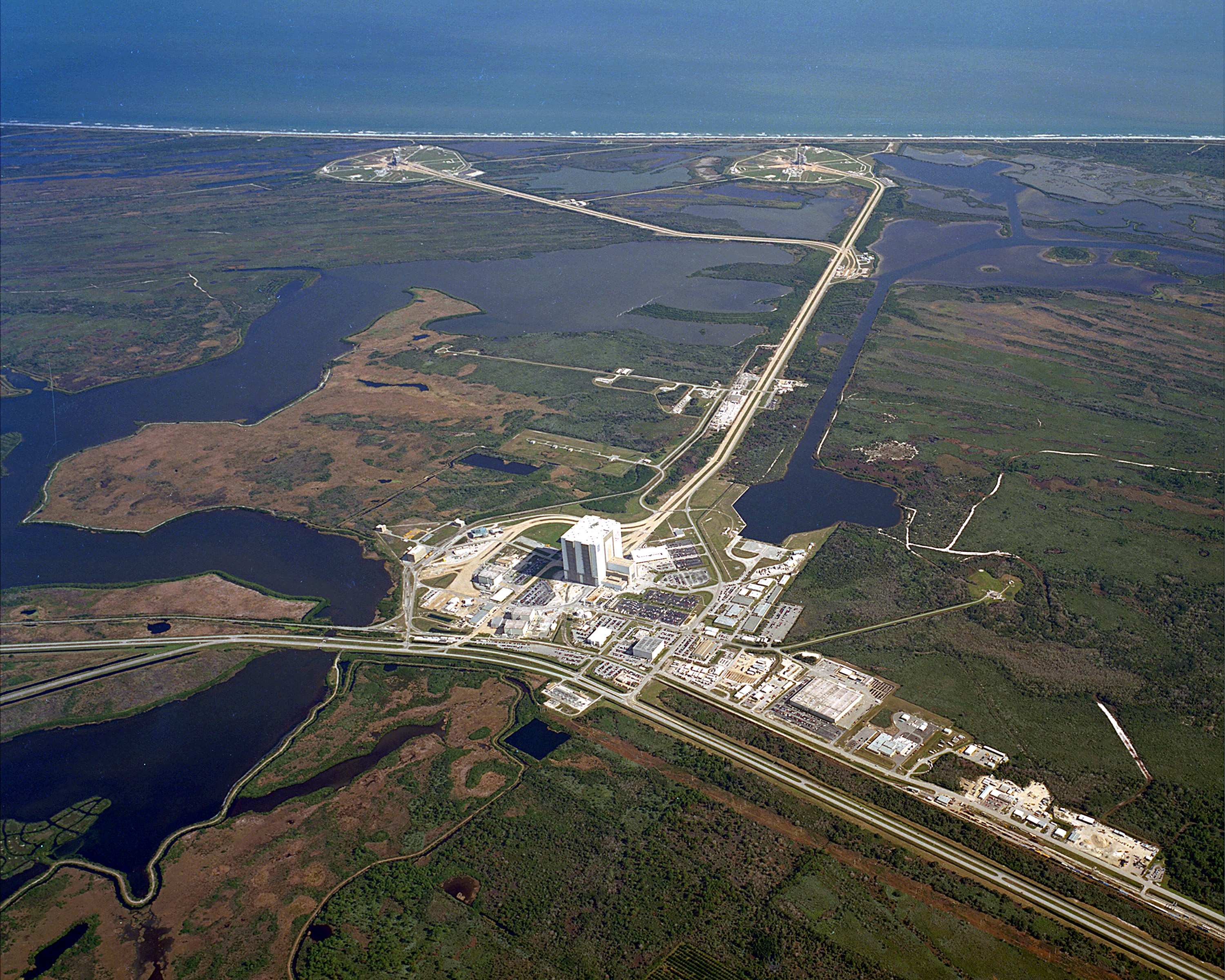 KSC's Launch Complex 39 is strategically located next to a barge site and a variety of structures, including a Vehicle Assembly Building (VAB), Orbiter Processing Facilities (OPF), Press Site, Launch Control Center (LCC), and a crawlerway to the pads. The crawlerway, leading to pads 39B on the left and 39A on the right, can be seen extending from the massive VAB at the left in this photo. The VAB (situated in the center, foreground), which covers eight acres and stands 525 feet tall, is used for assembly, stacking and mating of Space Shuttle elements. Originally built for assembly of Apollo/Saturn vehicles and later modified to support Space Shuttle operations, the VAB is one of the largest buildings in the world. The LCC, seen here as the small white building to the upper right of the VAB, is where launch, mission support, and loading are controlled.